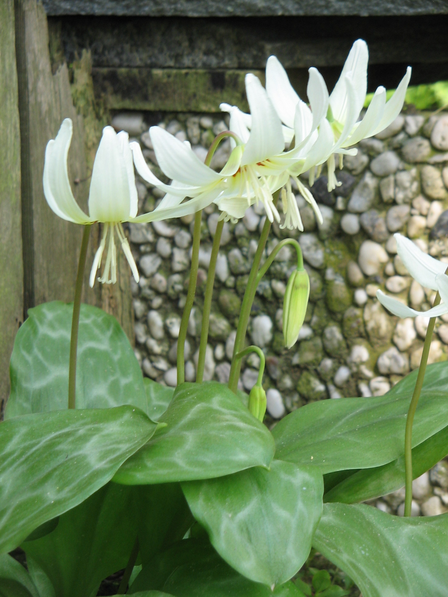 Erythronium 'White Beauty' clump